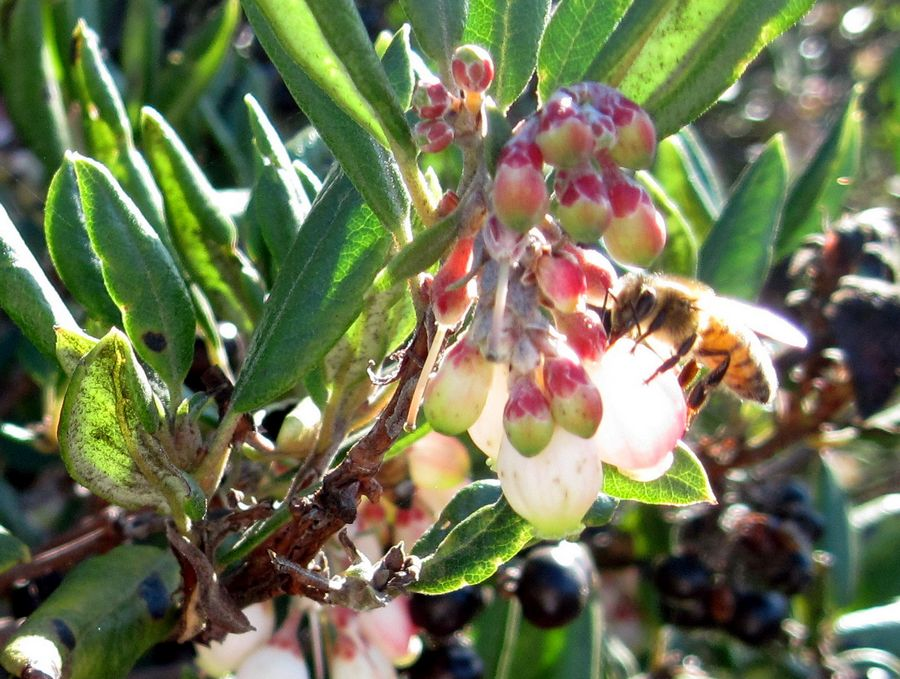 Mission Manzanita